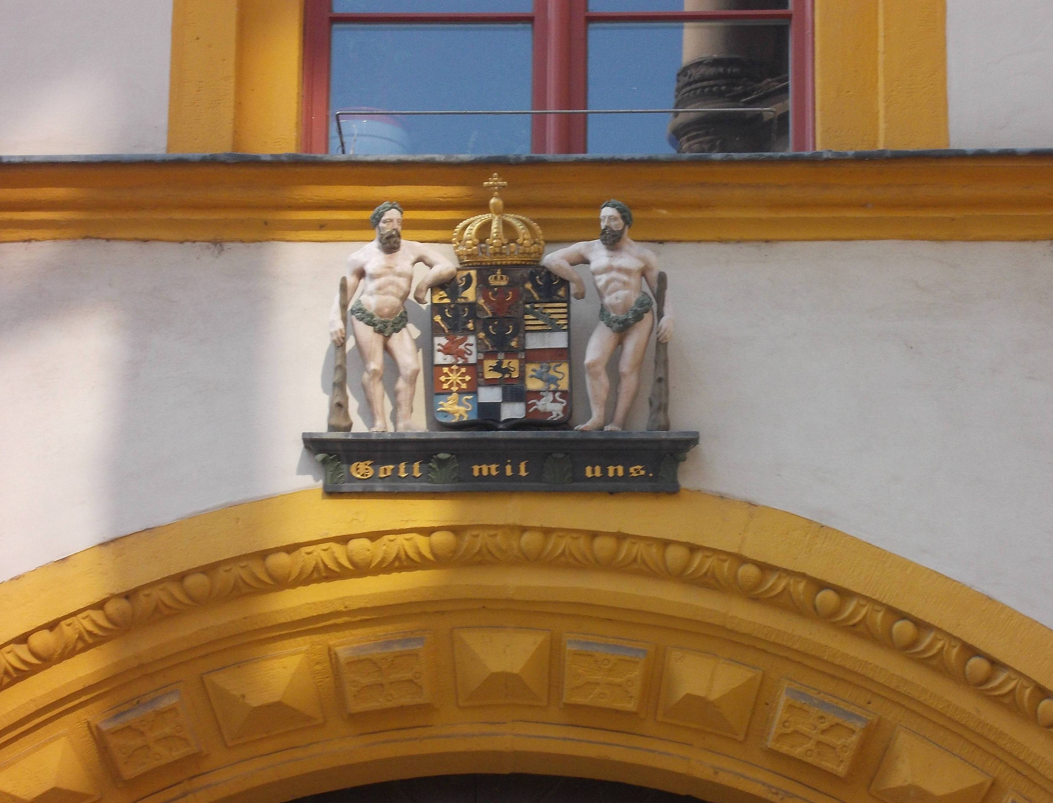 Von Jena's Ladies Foundation in Halle/Saale (Saxony-Anhalt)